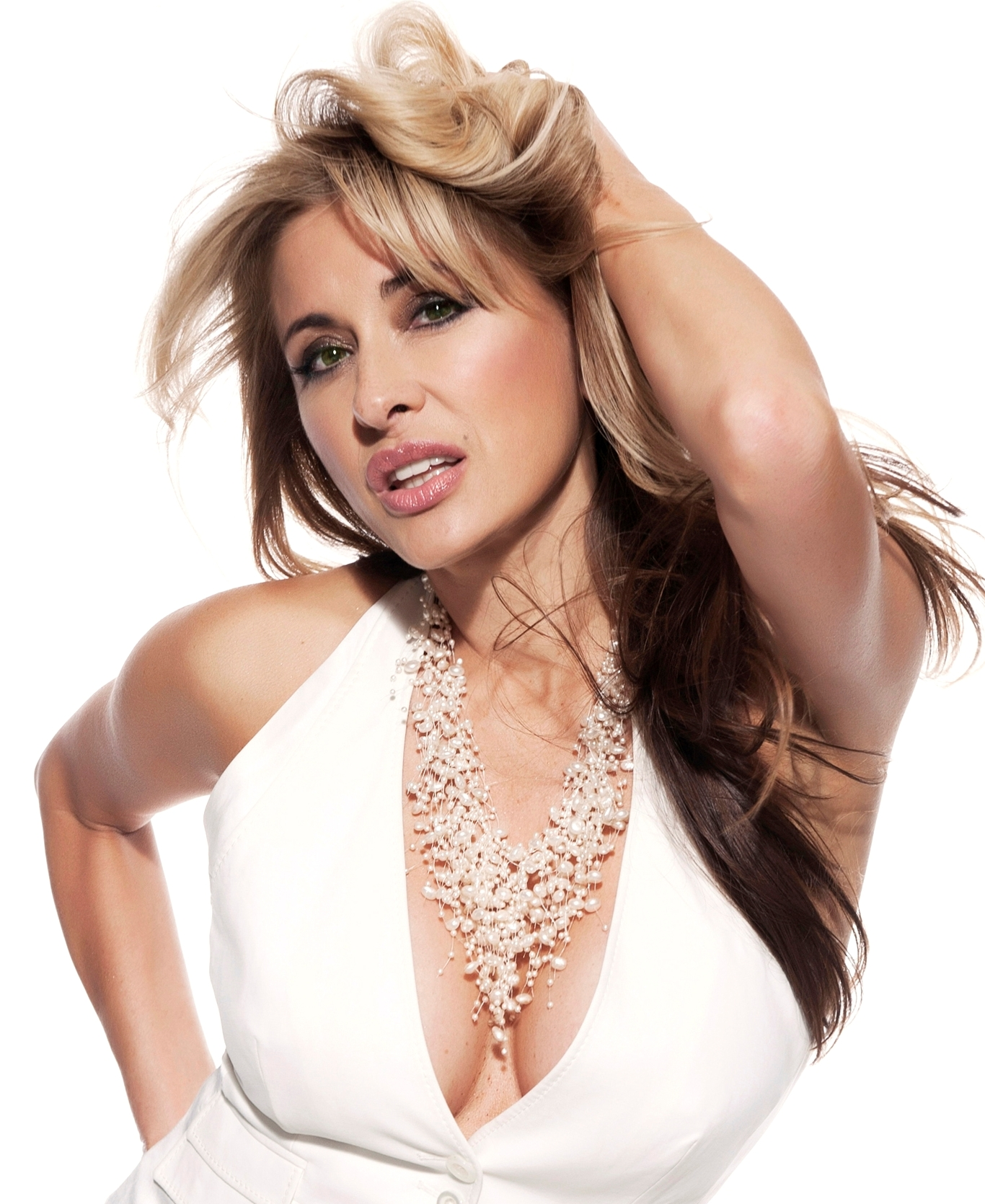 CINDY MILO: Actress | TV Presenter | Model